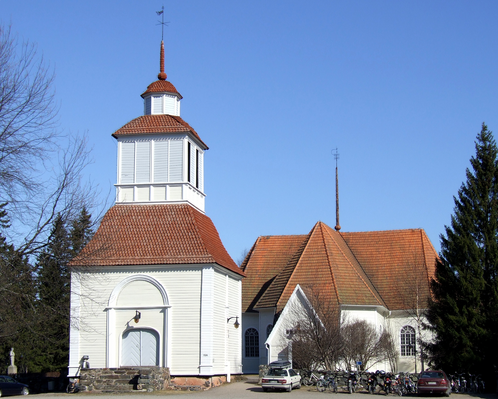 The Church and the Belfry of Haukipudas, Finland. The church is designed by Matti Honka and built by Jaakko Suonperä and it was completed in the year 1762. The belfry is designed and built by Heikki Väänänen in 1751.